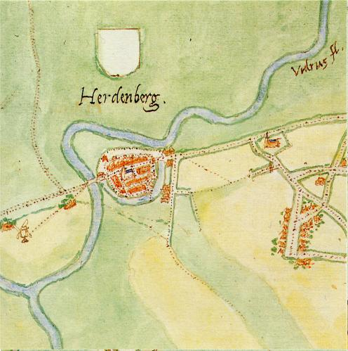 Hardenberg map by Jacob van Deventer